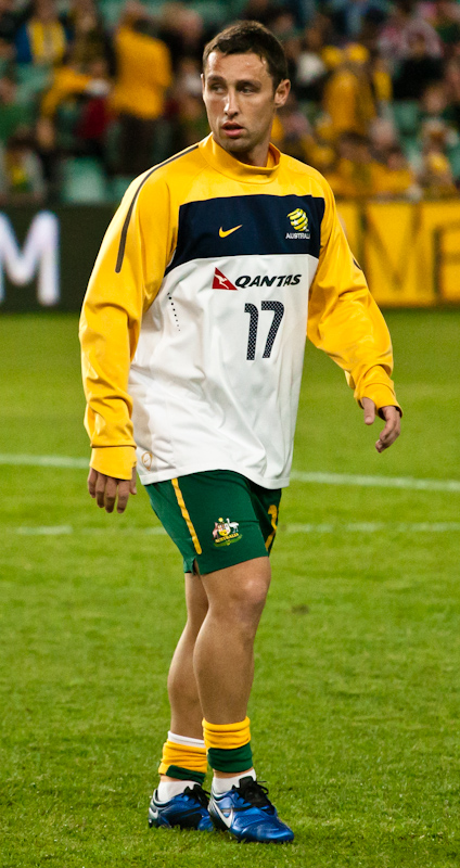 Scott McDonald representing the Australian national football team against Paraguay at the Sydney Football Stadium.